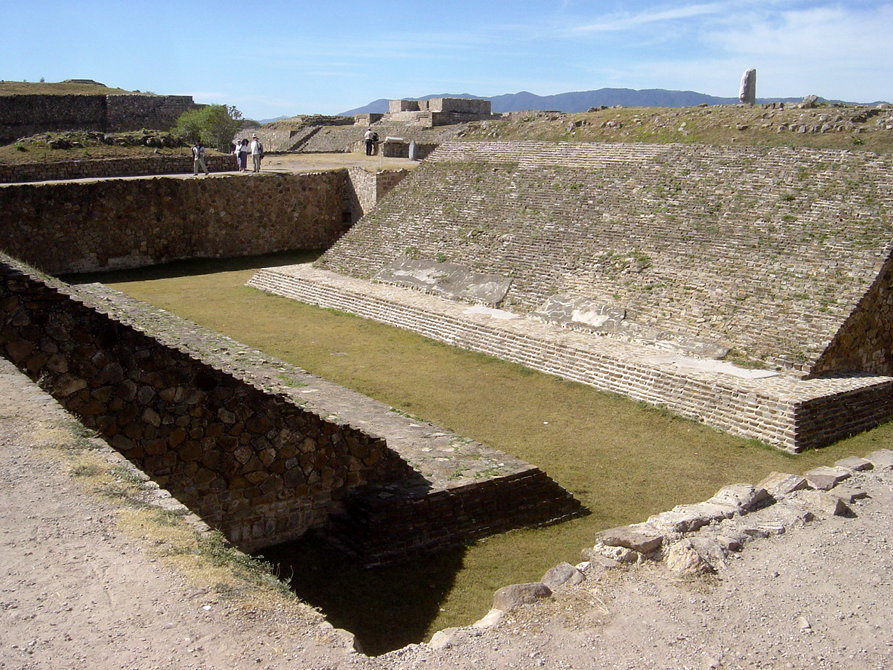 Ancient ball court of Monte Alban, in the Oaxaca region of Mexico. Please observe license and properly cite in use outside Wikipedia. If you have any questions about the licensing, please feel free to use the contact information at my user page. This photo was moved from english Wikipedia. It was taken from the Monte Albán article of that wikipedia.